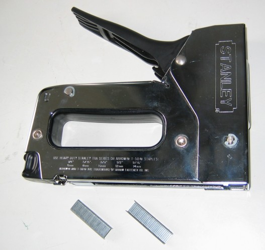 Small staple-gun with staples. Photo by Heron 17:33, 4 Jul 2004 (UTC).